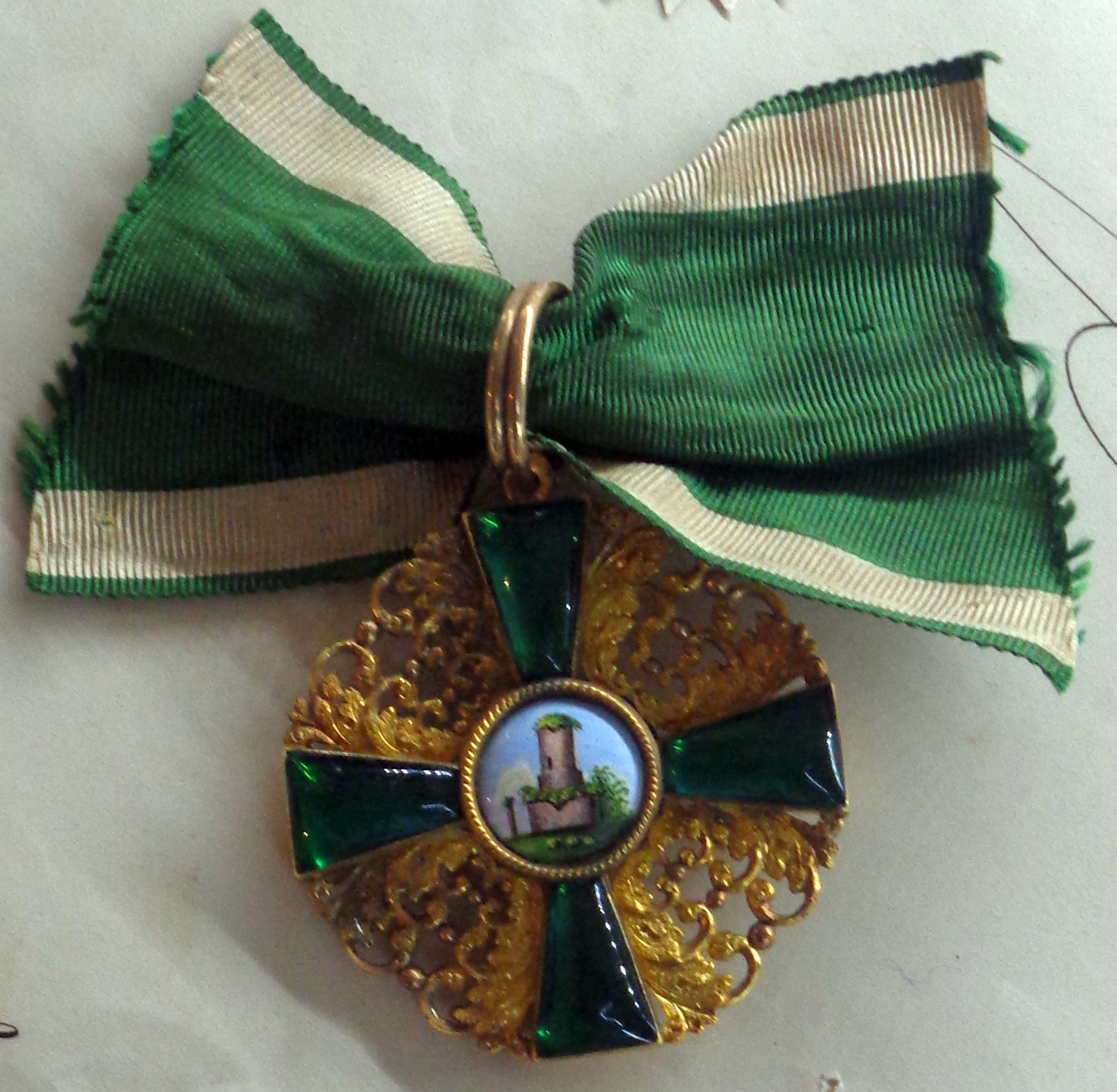 Order of the Lion of Zaeringen, badge of Commander 1st class, c.1860. Grand Duchy of Baden. The exhibition of the Tallinn Museum of Orders of Knighthood, Estonia.